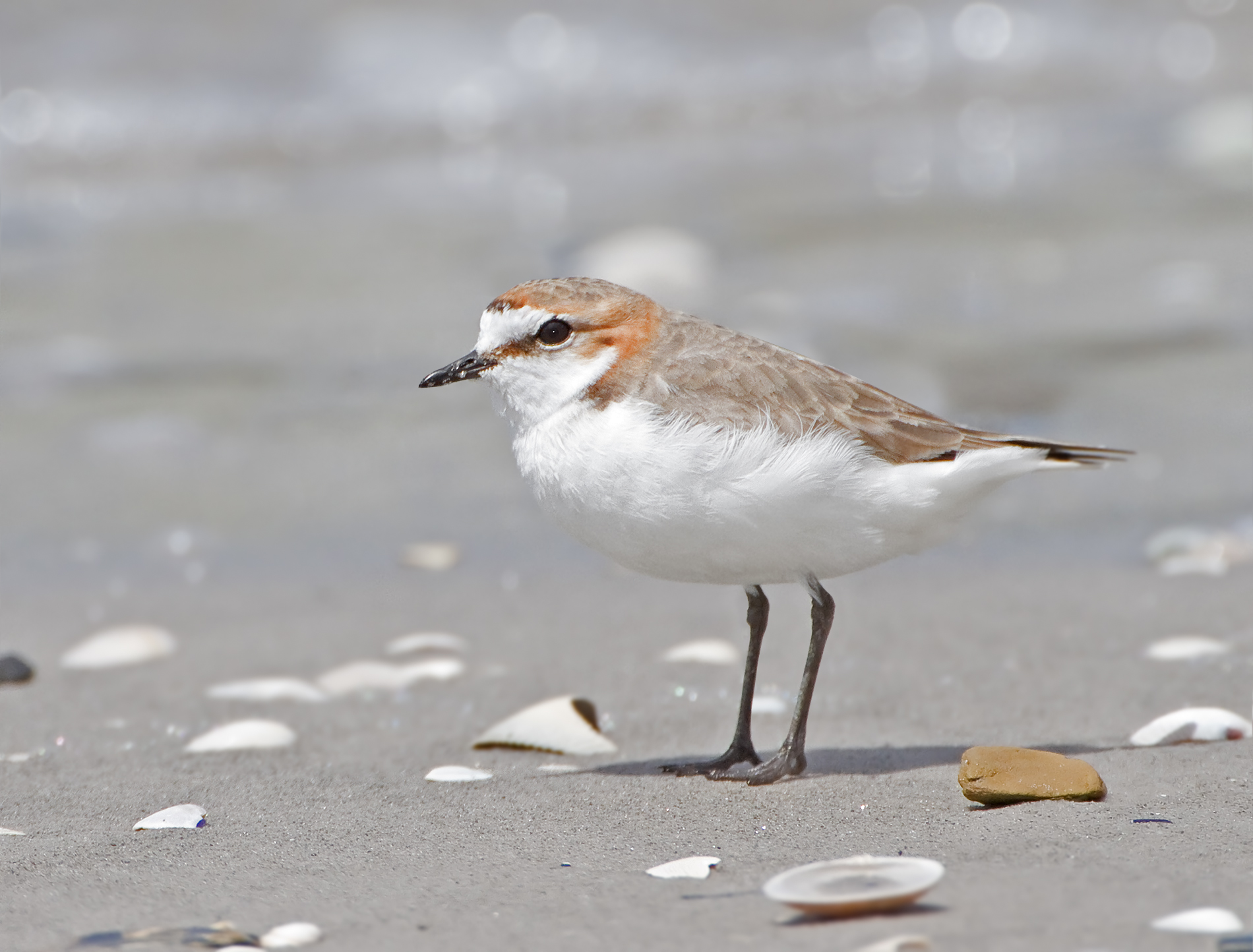 Red-capped Plover (Charadrius ruficapillus), Orford, Tasmania, Australia